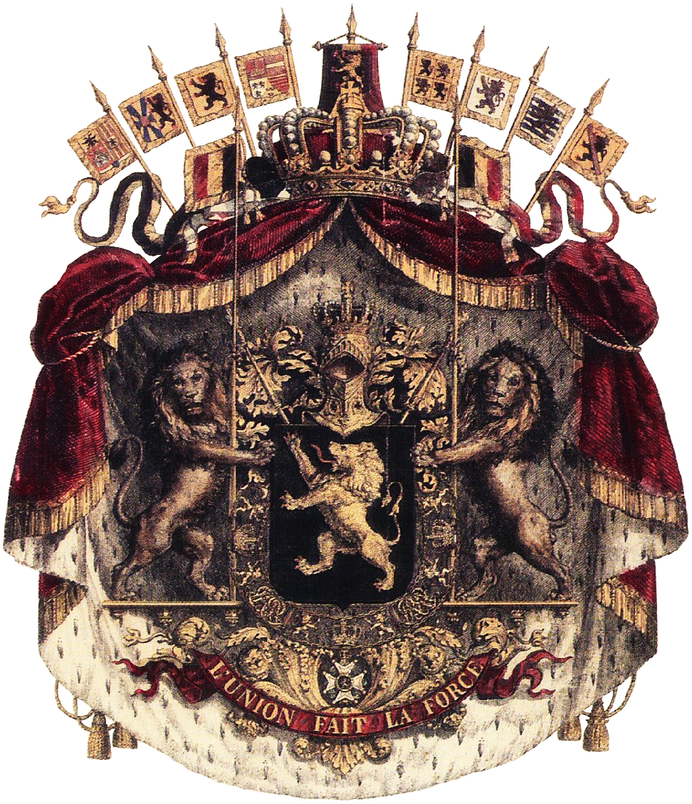 Great coat of arms of the Kingdom of Belgium